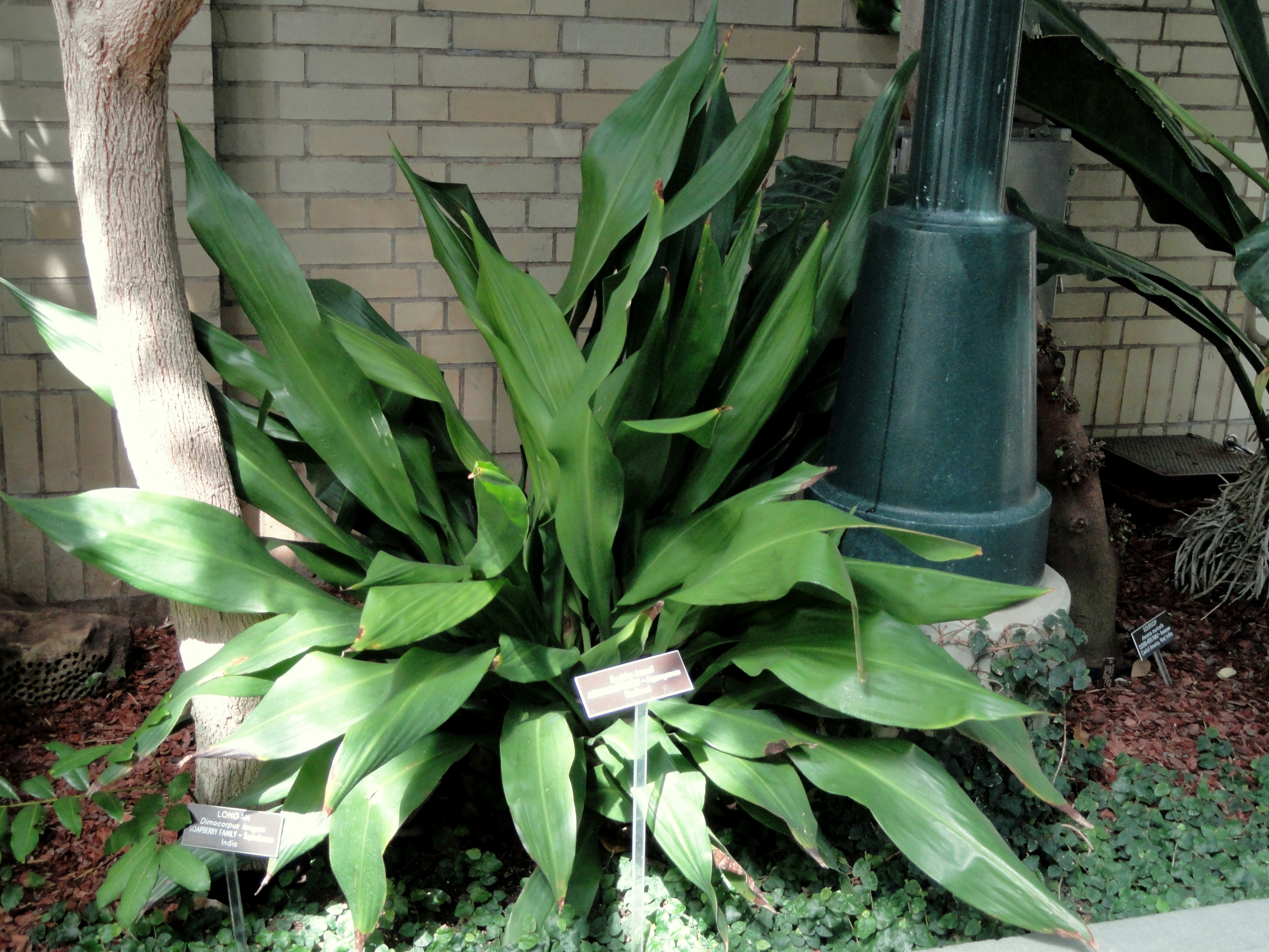 Botanical specimen in the United States Botanic Garden, Washington, DC, USA.